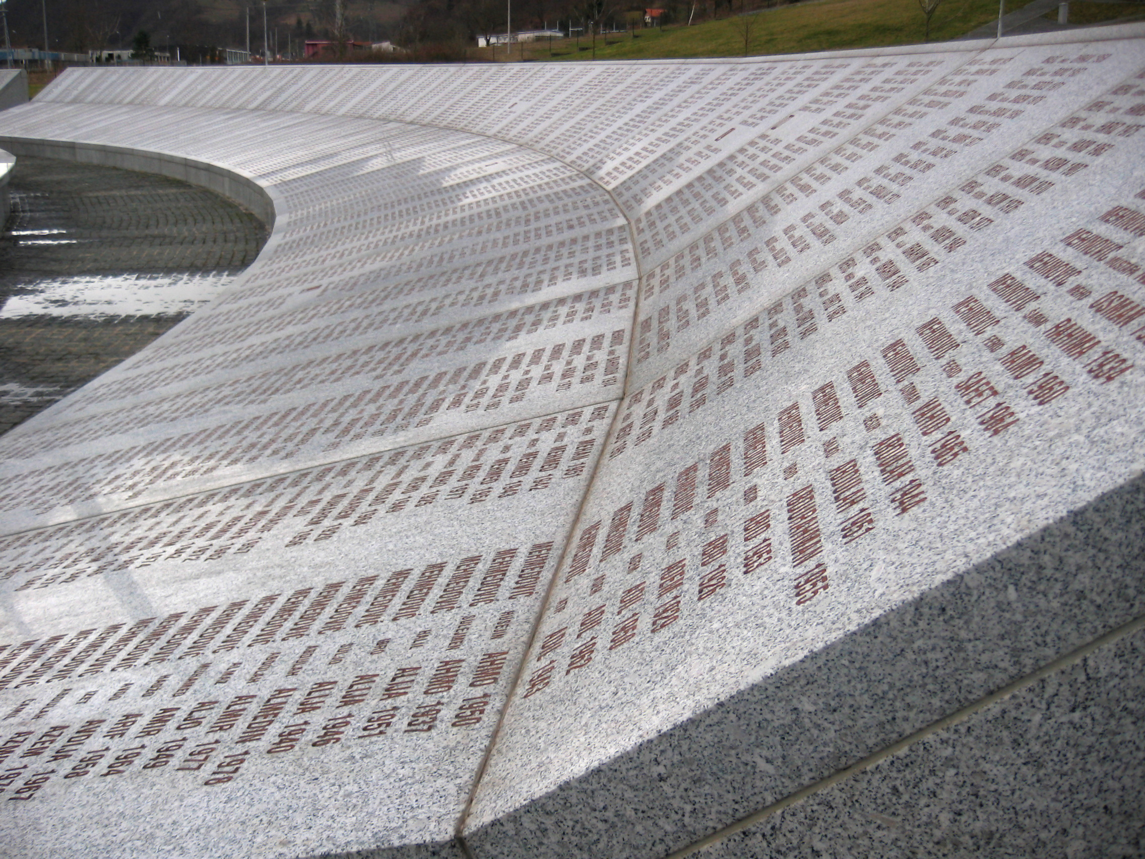 Wall of names at the Potočari genocide memorial near Srebrenica.